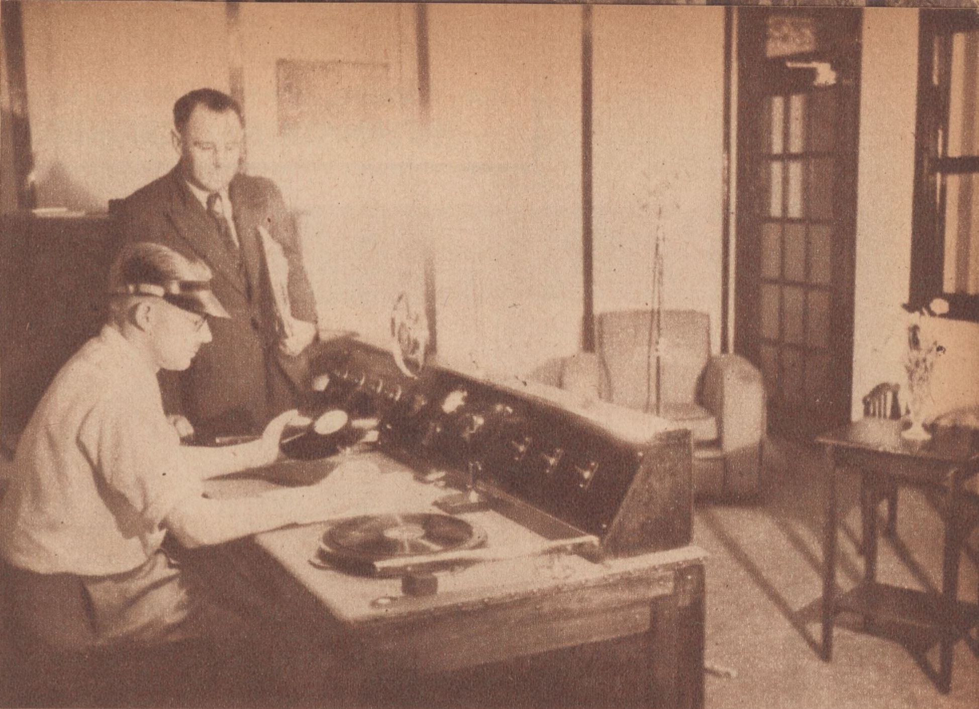 Photograph of 2BS Bathurst studio on the station's opening day of 1 January 1937. Unknown photographer, likely Wireless Weekly staff. Photograph extracted from Wireless Weekly (Australia) of 5 February 1937. Complete page of magazine published digitally in National Library of Australia's Trove.